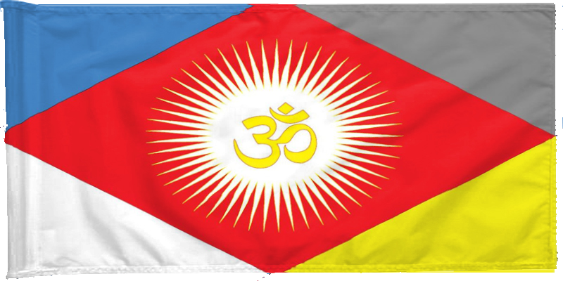 God Virat Viswakarma cloth Flag